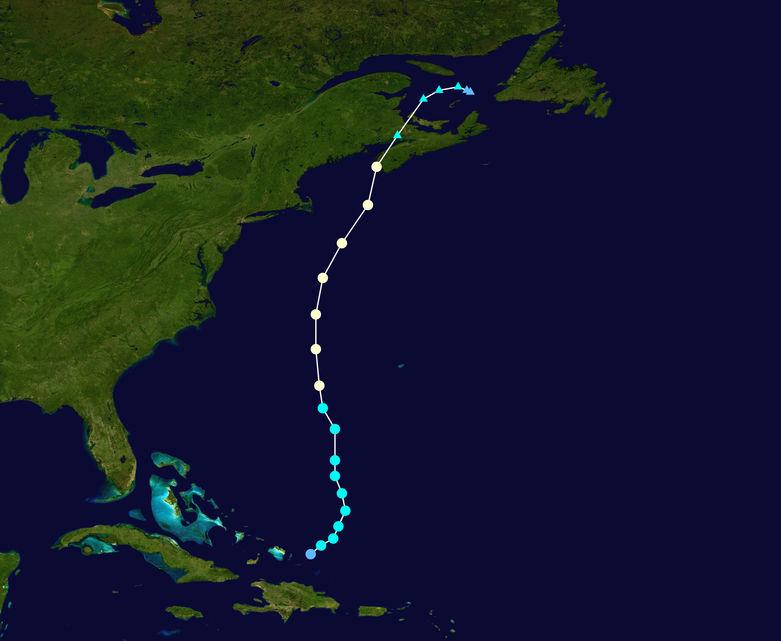 Track map of Hurricane Kyle of the 2008 Atlantic hurricane season. The points show the location of the storm at 6-hour intervals. The colour represents the storm's maximum sustained wind speeds as classified in the Saffir–Simpson scale (see below), and the shape of the data points represent the nature of the storm, according to the legend below. Saffir–Simpson scale Tropical depression≤38 mph≤62 km/h Category 3111–129 mph178–208 km/h Tropical storm39–73 mph63–118 km/h Category 4130–156 mph209–251 km/h Category 174–95 mph119–153 km/h Category 5≥157 mph≥252 km/h Category 296–110 mph154–177 km/h Unknown Storm type Tropical cyclone Subtropical cyclone Extratropical cyclone / Remnant low / Tropical disturbance / Monsoon depression